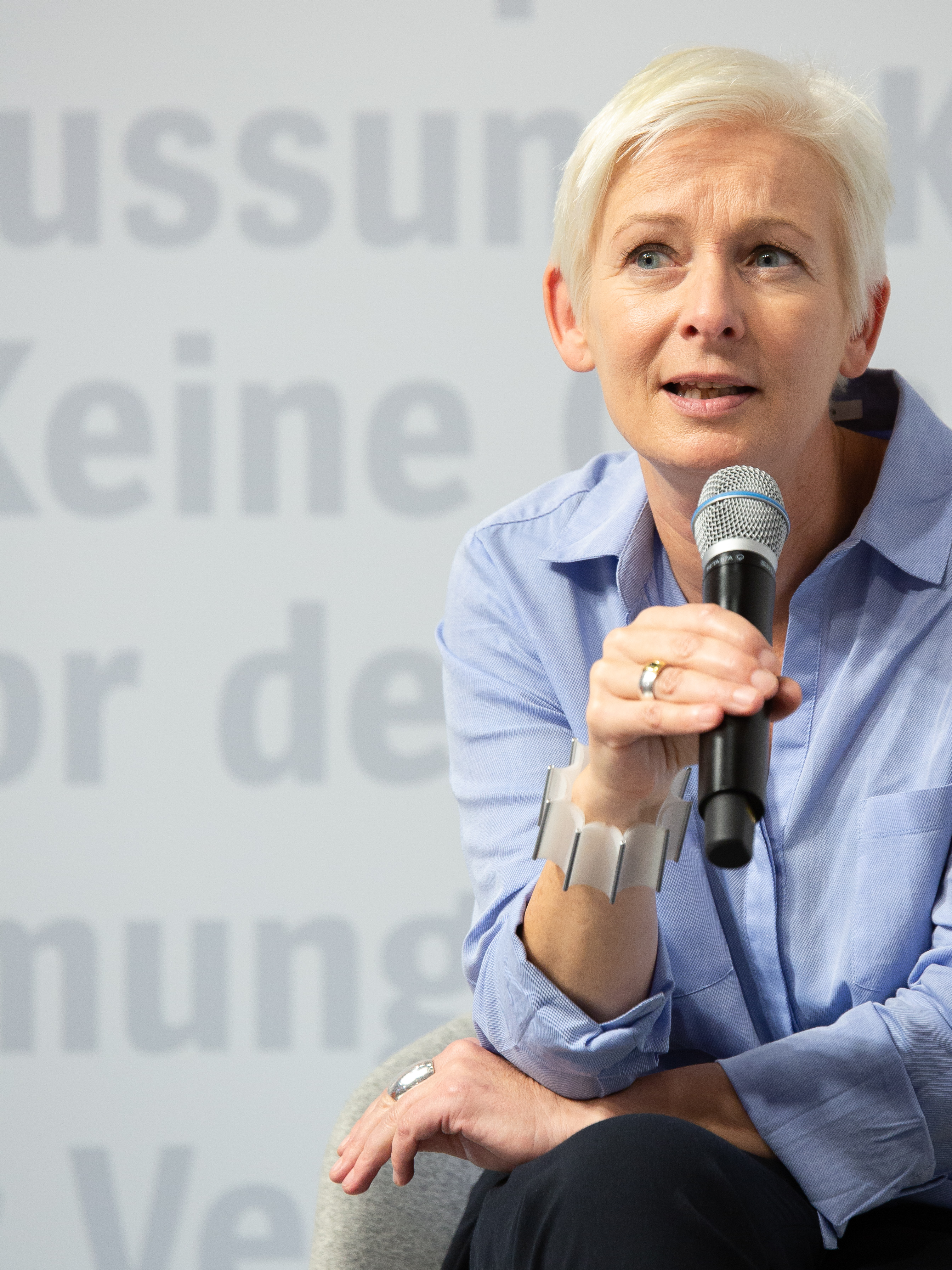 Dörte Hansen at theFrankfurt Book Fair 2018